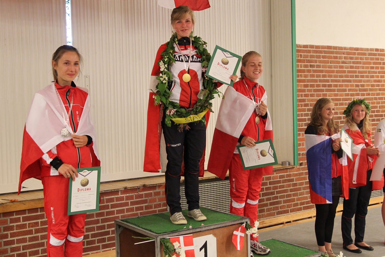 Awards ceremony at JWOC 2010. Ida Bobach (gold), Hanna Wiśniewska (Silver) and Monika Gajda (Bronze)